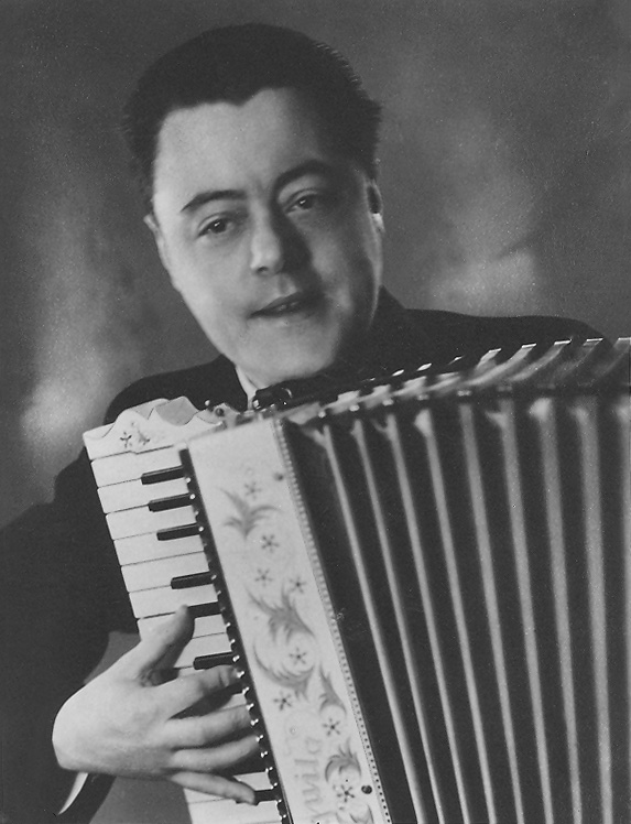 Wilhelm Heckmann with accordeon.